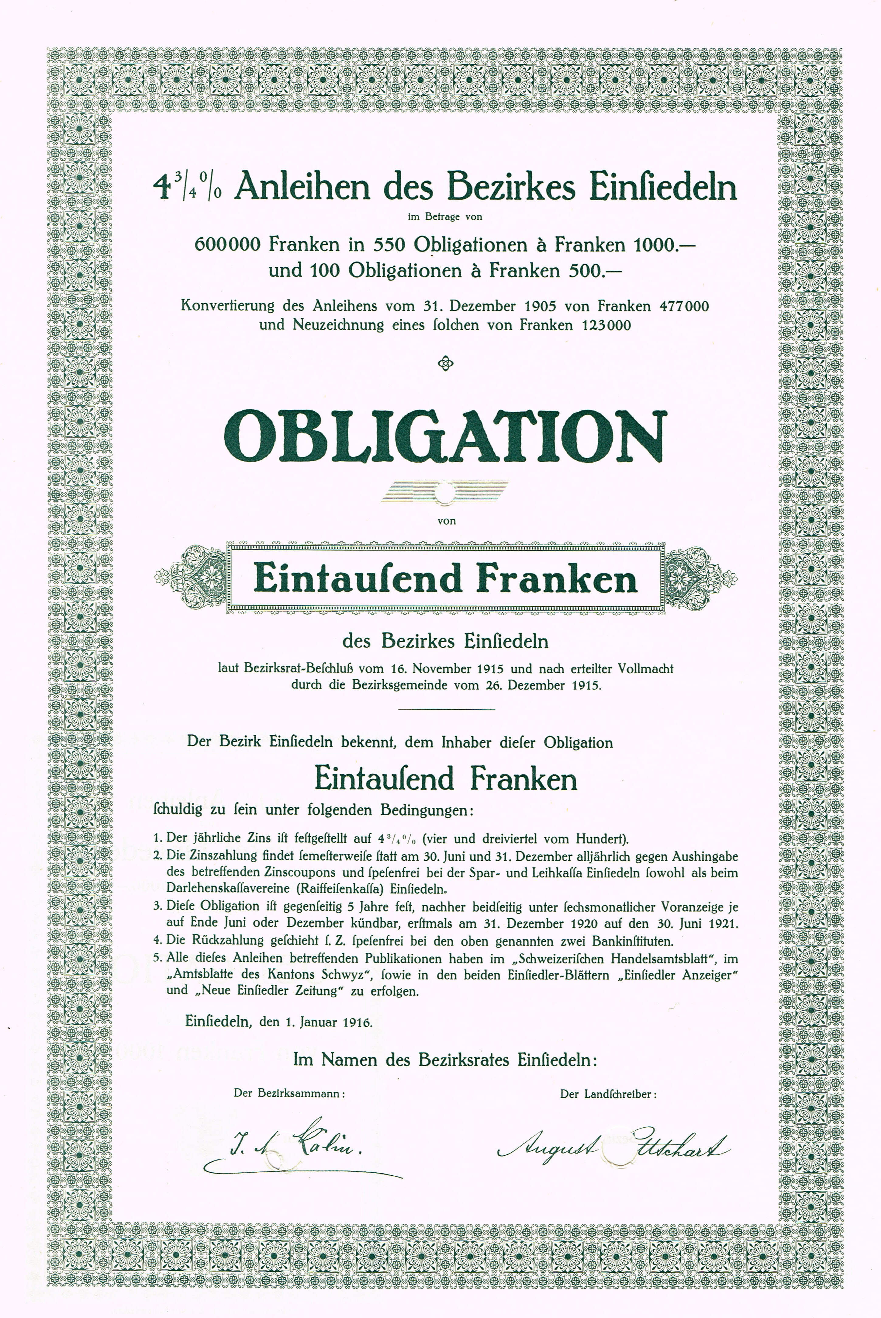 Bond of the Einsiedeln district, issued 1. January 1916